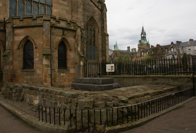 Dunfermline Abbey, Fife, Scotland - St Margaret's Chapel